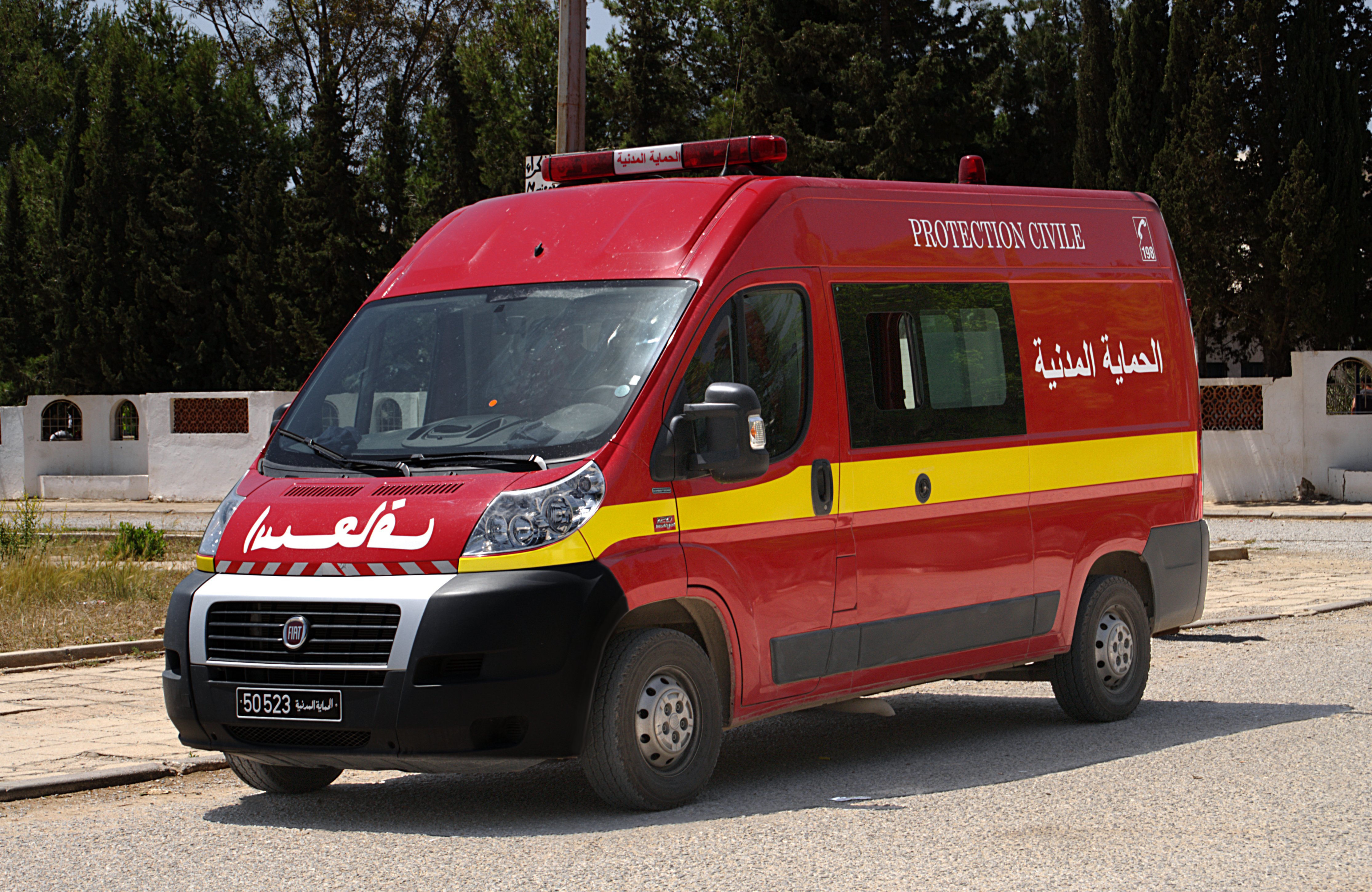 FIAT 120 multijet - Fire Fighting Ambulance in Tunisia